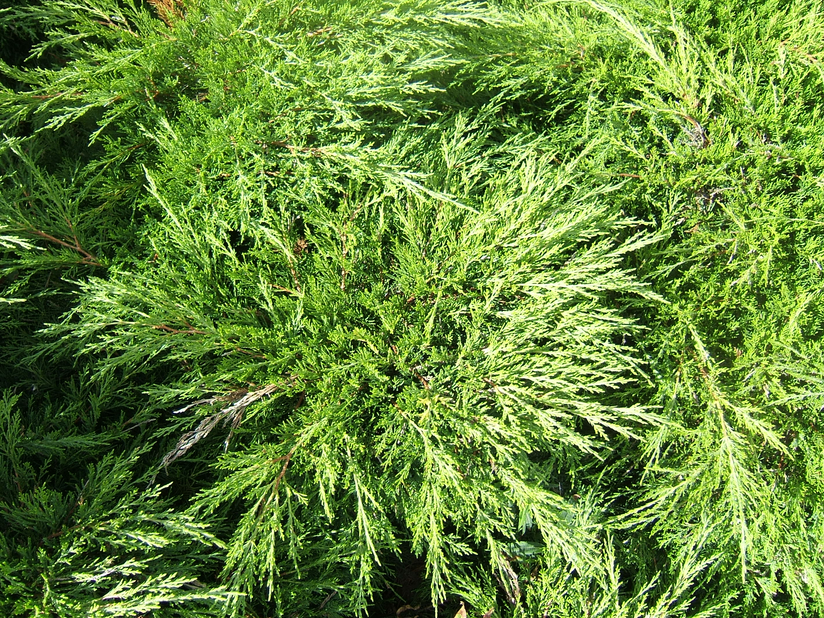 Juniperus sabina, cultivated, Newcastle, Northumberland, UK